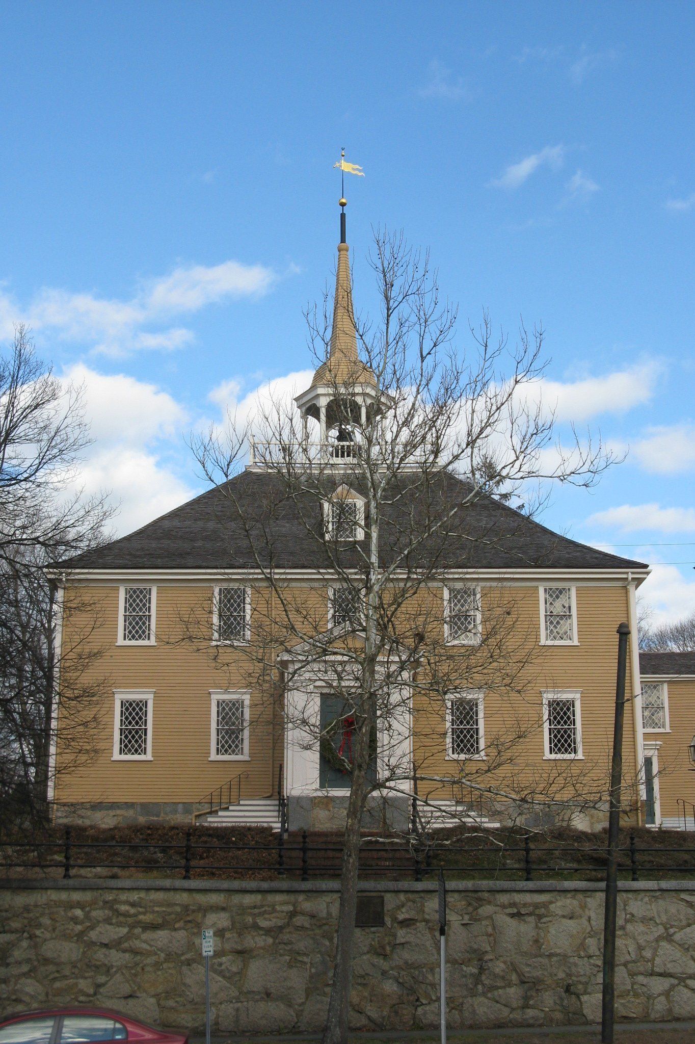 Lincoln Historic District, Hingham Massachusetts